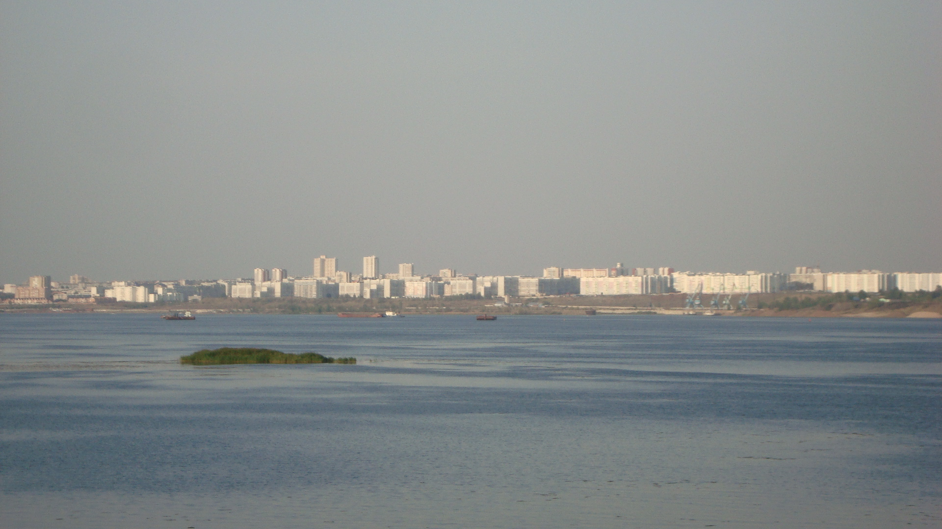 Russian city of Naberjnie Chelny